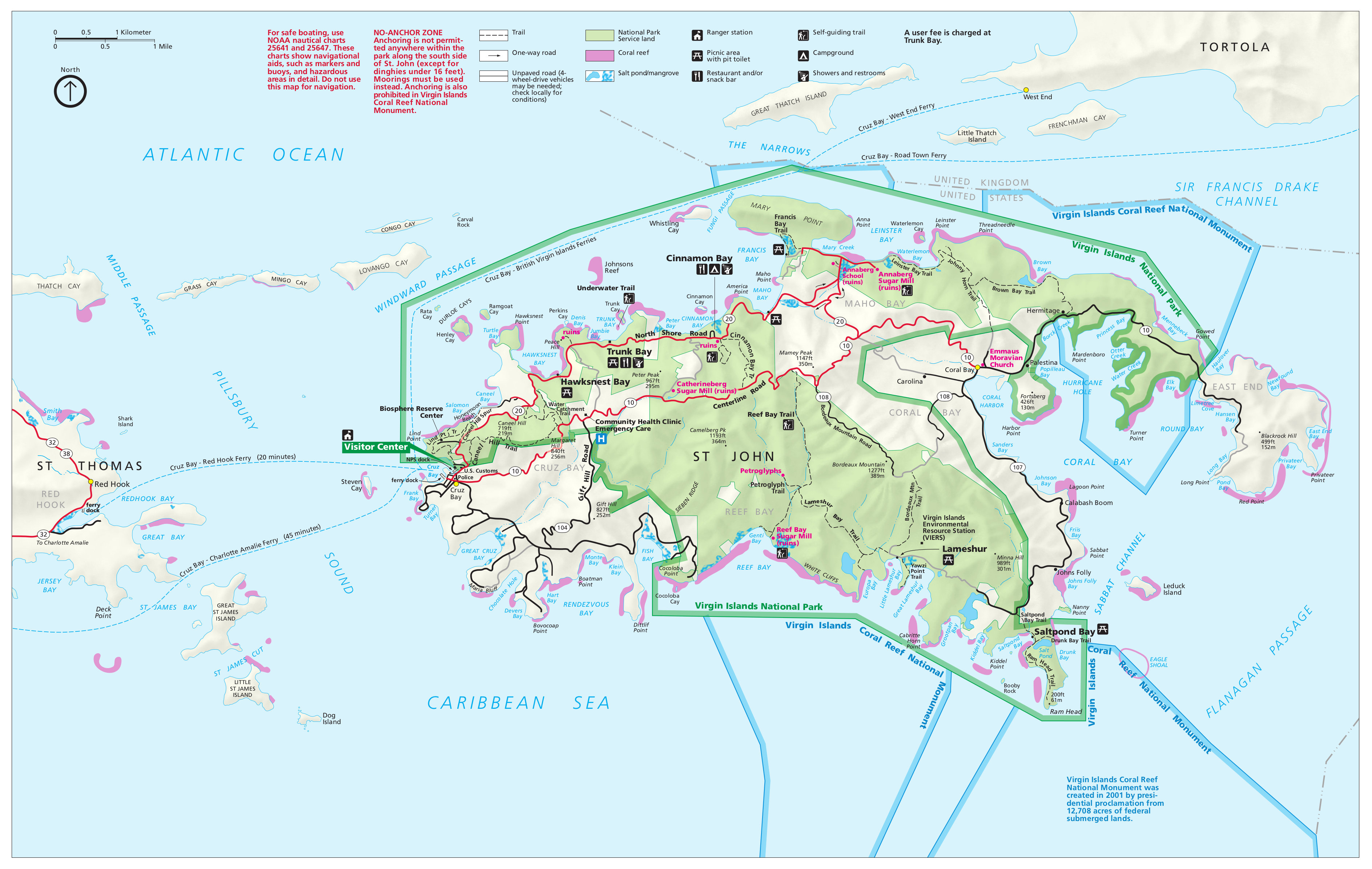 Official map of Virgin Islands National Park, including Trunk Bay, Cinnamon Bay, and other locations on St. John.